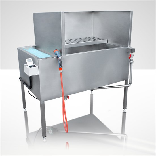 This all-in-one dipper from PerfectFinish offers a diving mask, a splash guard, a lattice tray for the coated part, and a hand spray for washing in one unit.